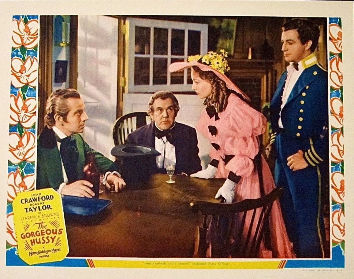 Lobby card for the 1936 film The Gorgeous Hussy.